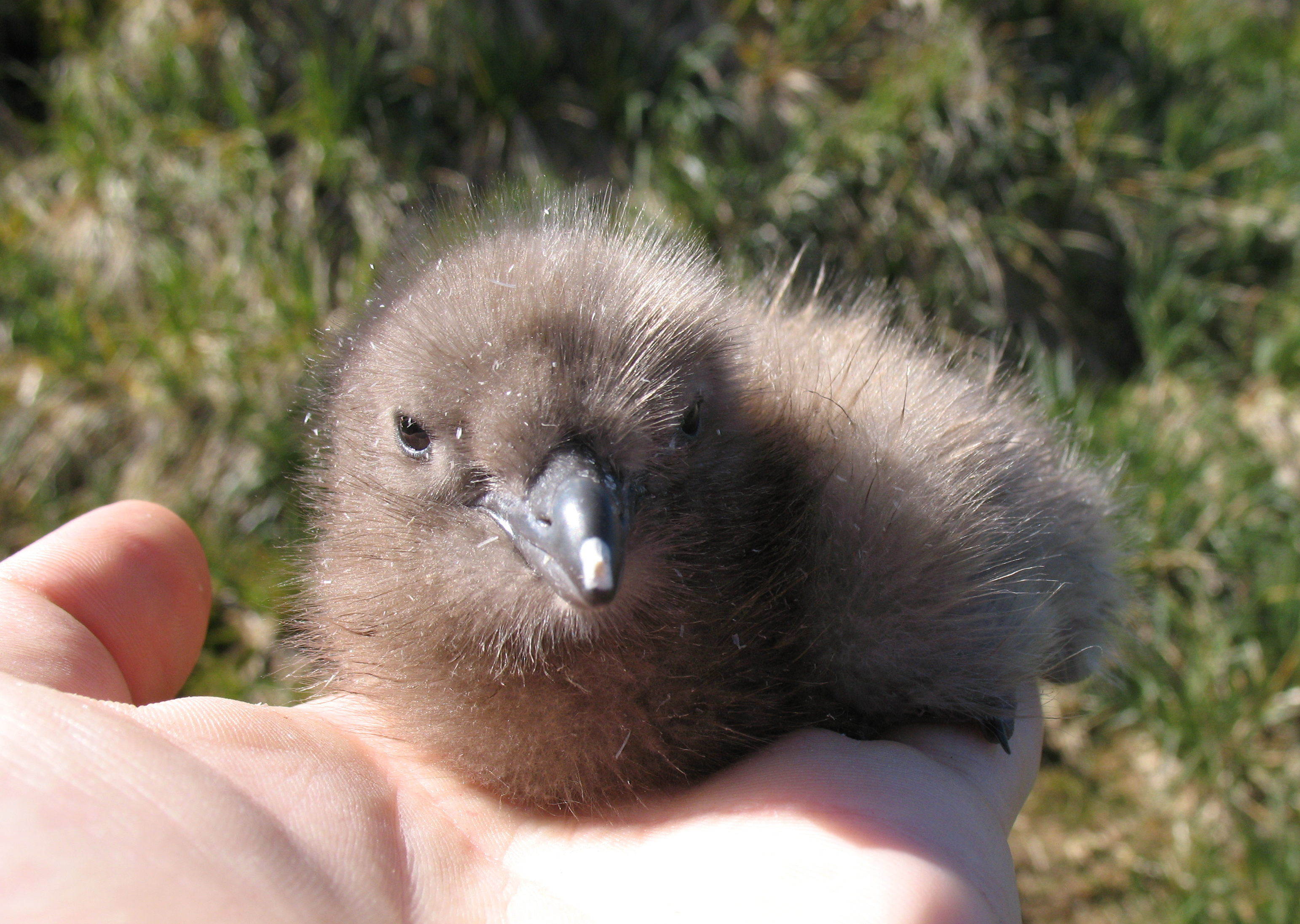 A Skua chick (species unknown) with visible egg tooth.